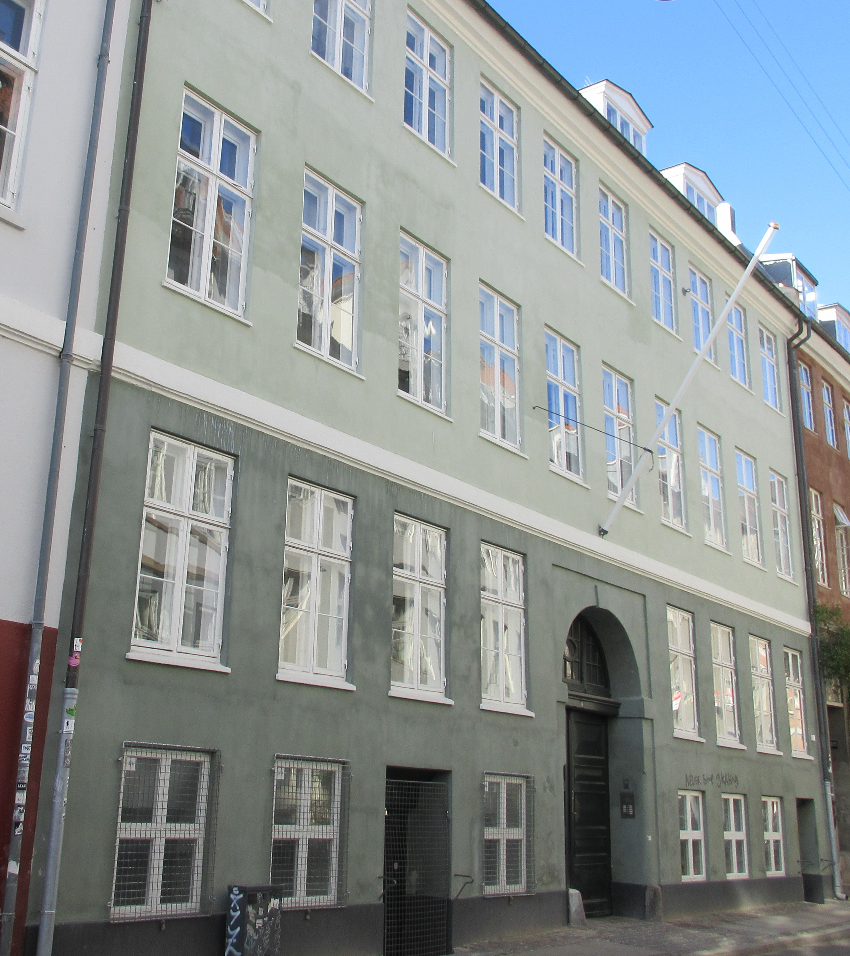 Brolæggerstræde 6 in Copenhagen, Denmark